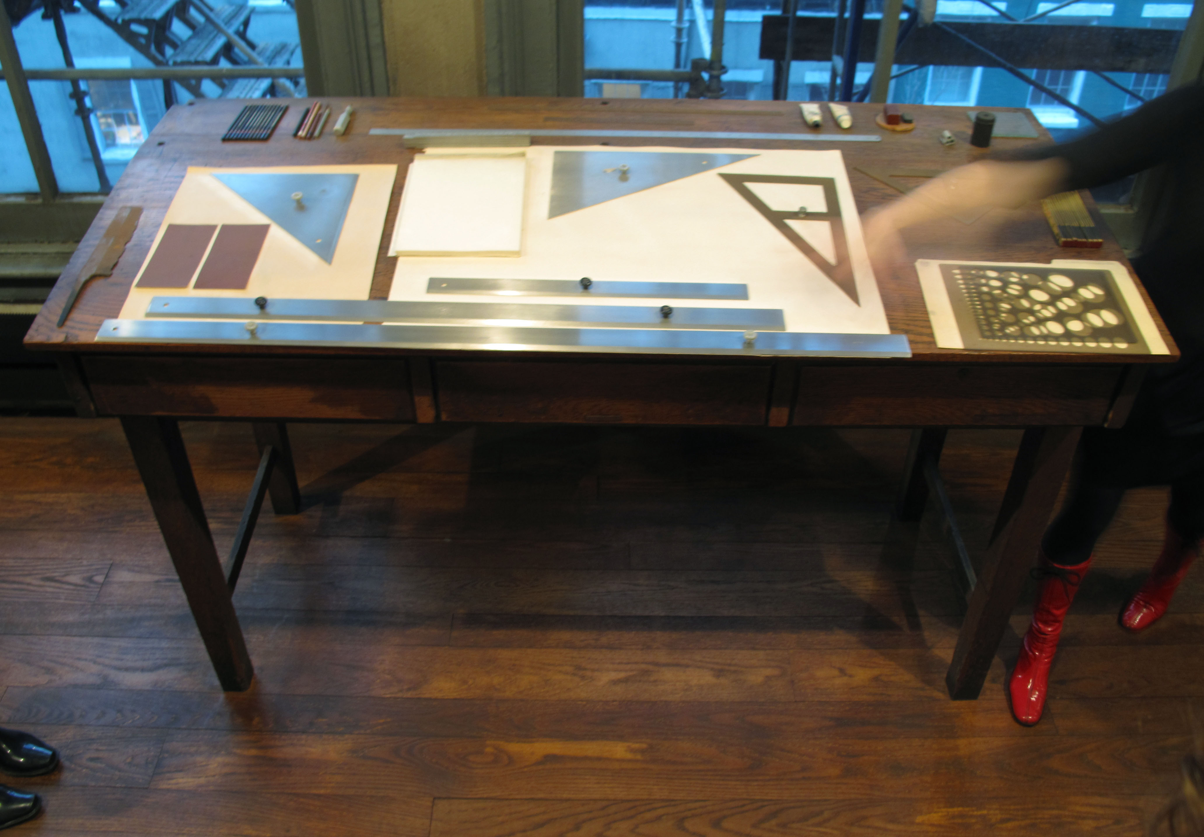 A desk in Donald Judd's studio in New York, NY. This desk is a nearly perfect example of knolling.